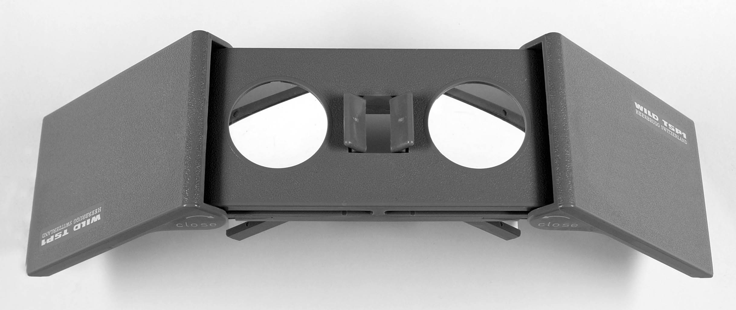 Stereoscope to look at stereoscopic photos, which are ususaly exposed in two different angles; manfacturer WILD, 1985